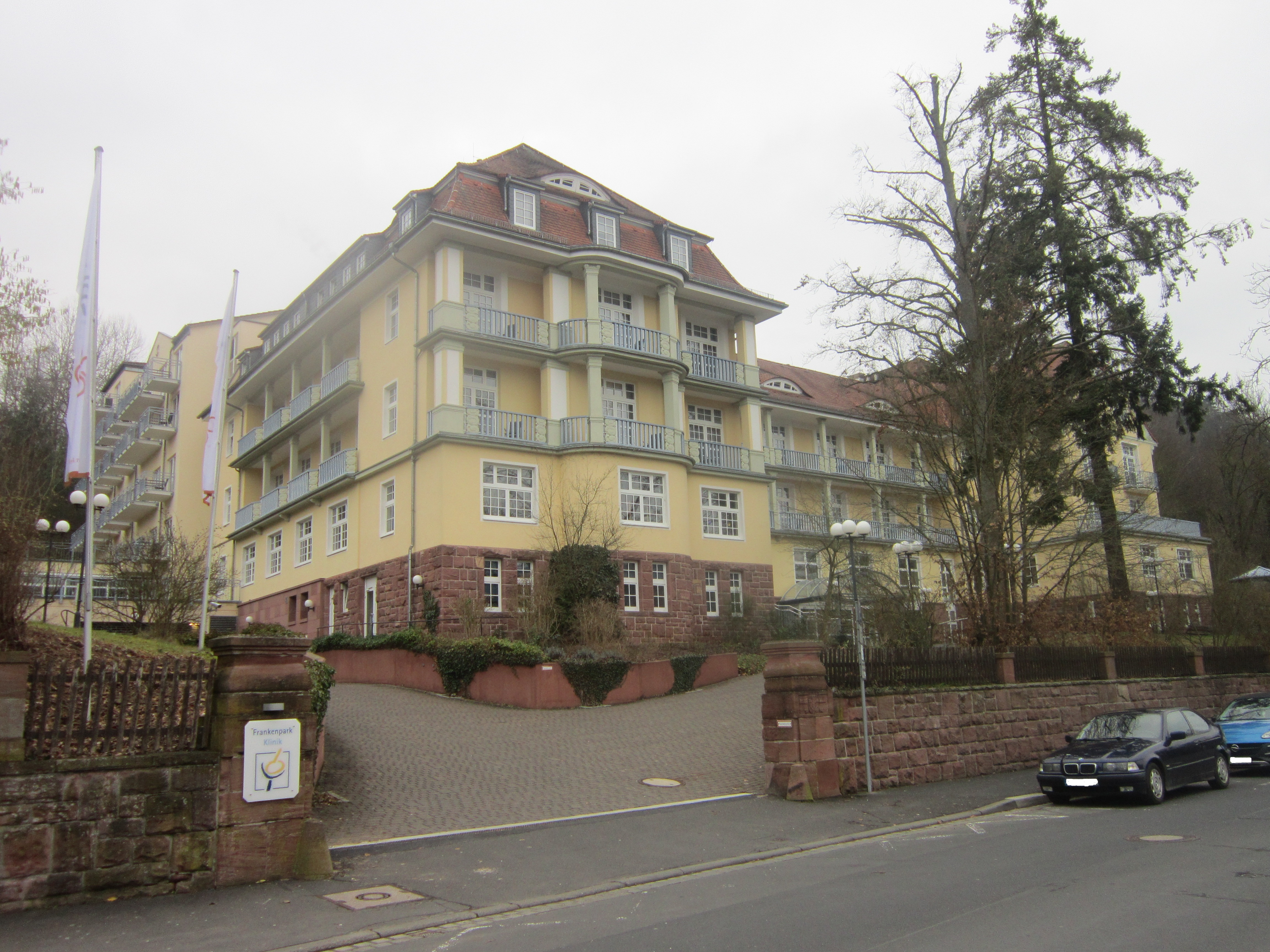 Building in the German spa town of Bad Kissingen in Lower Franconia (Bavaria) (Address: Bismarckstraße 68; 70).